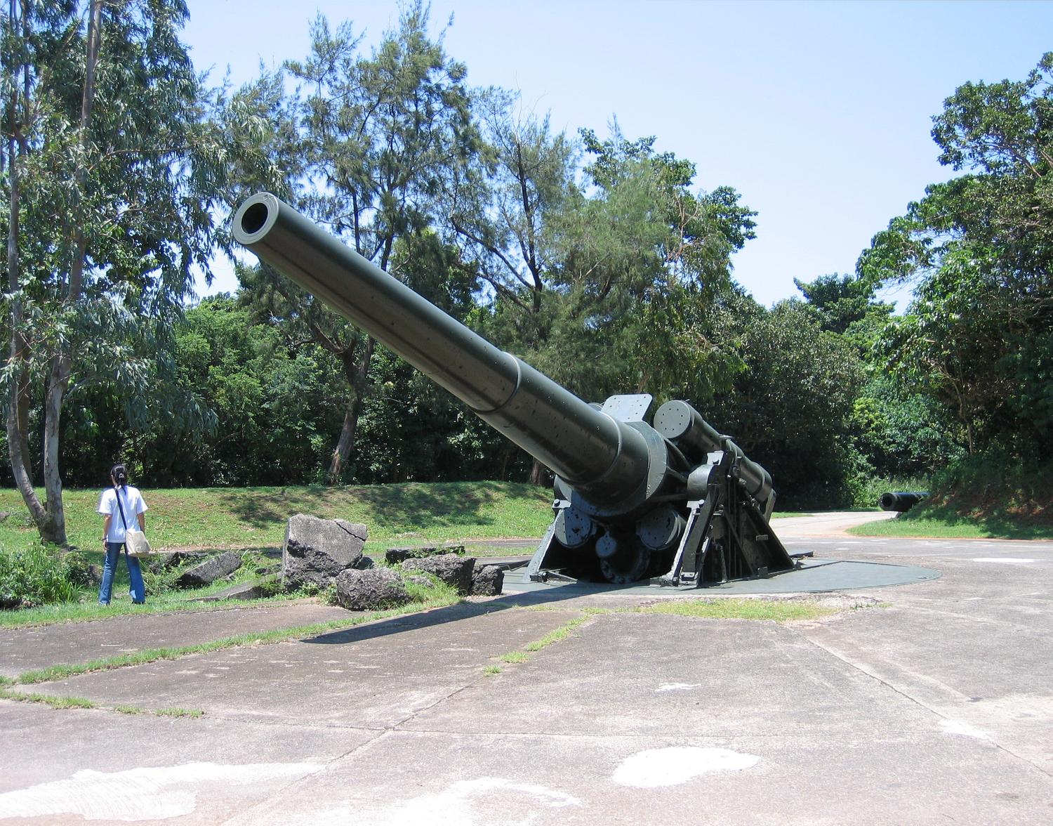 A 12-inch seacoast gun emplaced at Battery Hearn on Fort Mills (Corregidor). Battery Hearn was one of the last fortifications built on Fort Mills prior to limitations of the Washington Naval Treaty taking effect in the 1920s. The 12-inch guns were the longest range weapons (27 km (16 mi)) on Corregidor and fired on Japanese forces on Bataan Peninsula.